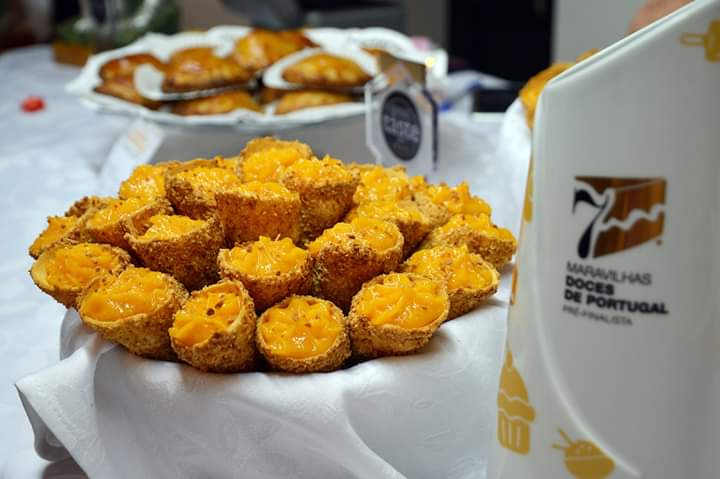 Cartuchos de Amêndoa de Cernache do Bonjardim